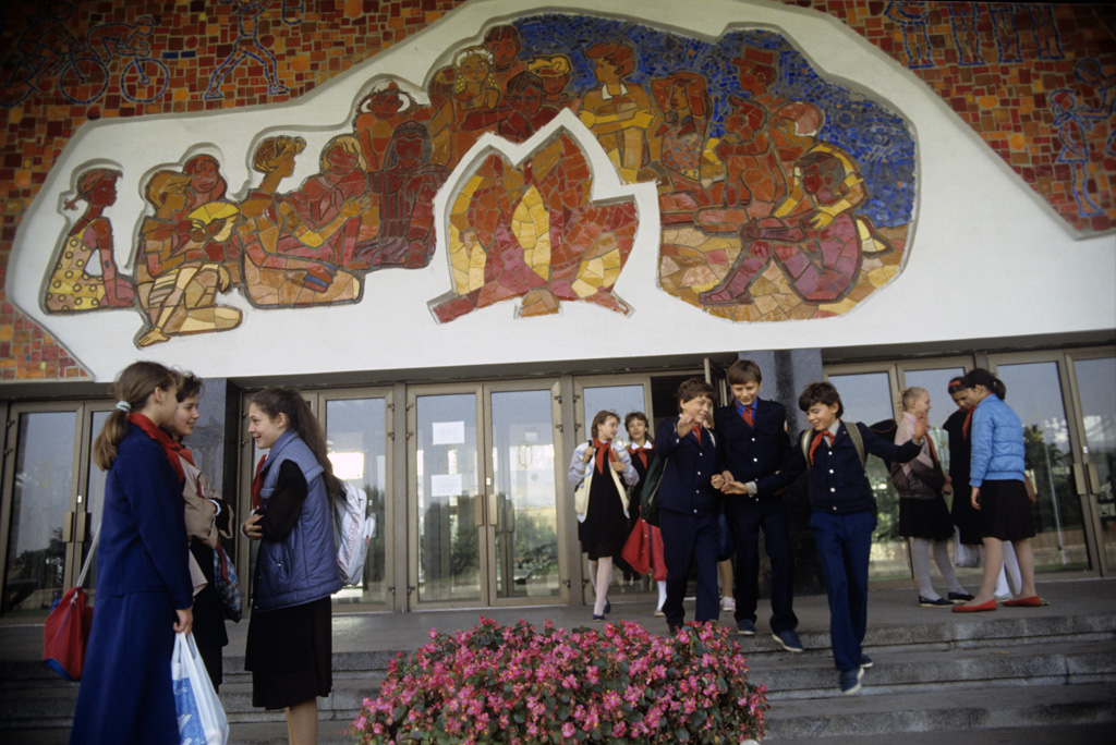 “Palace of Young Pioneers and Schoolchildren”. The entrance of the Palace of Young Pioneers and Schoolchildren.